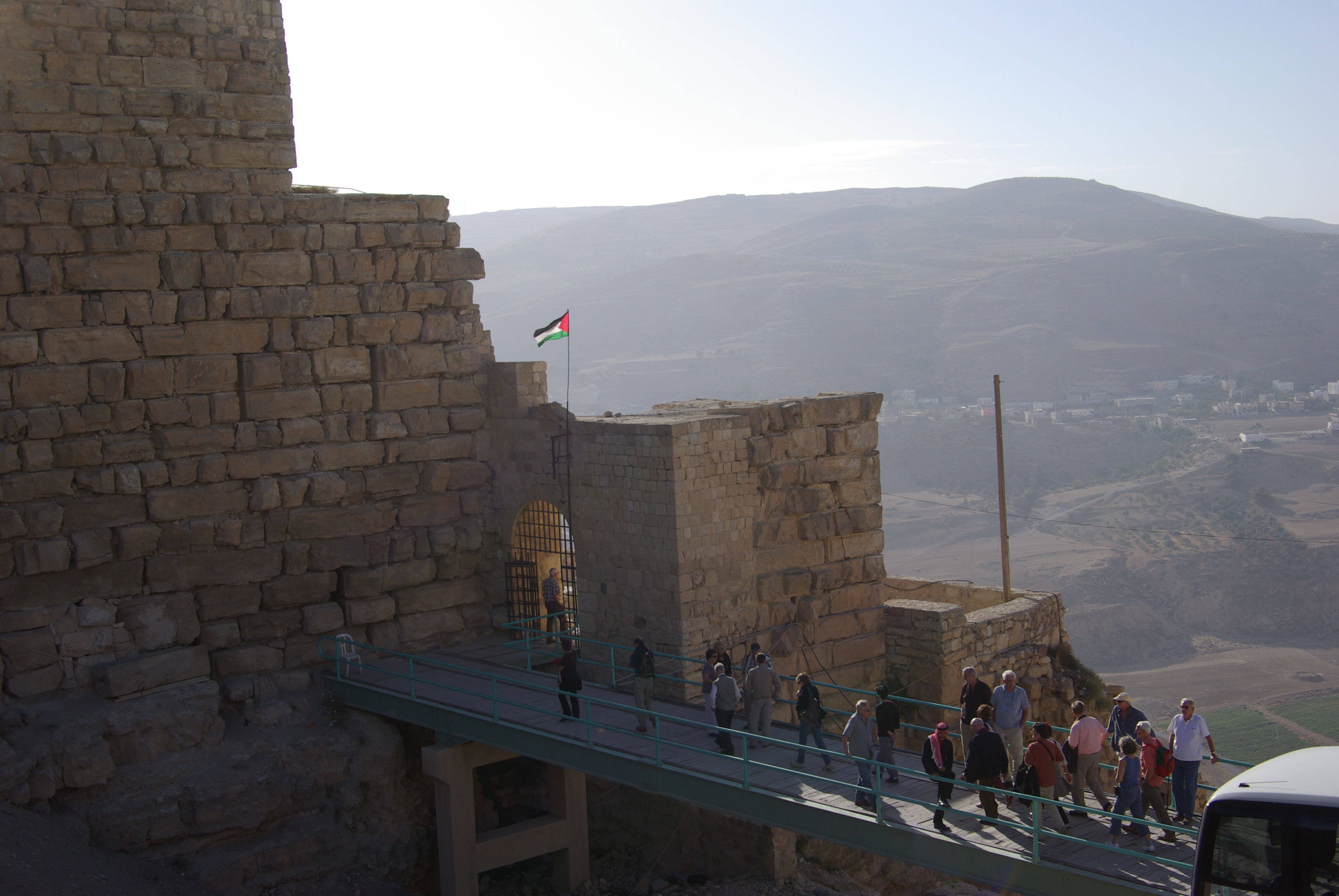 Al Karak, todays entrance